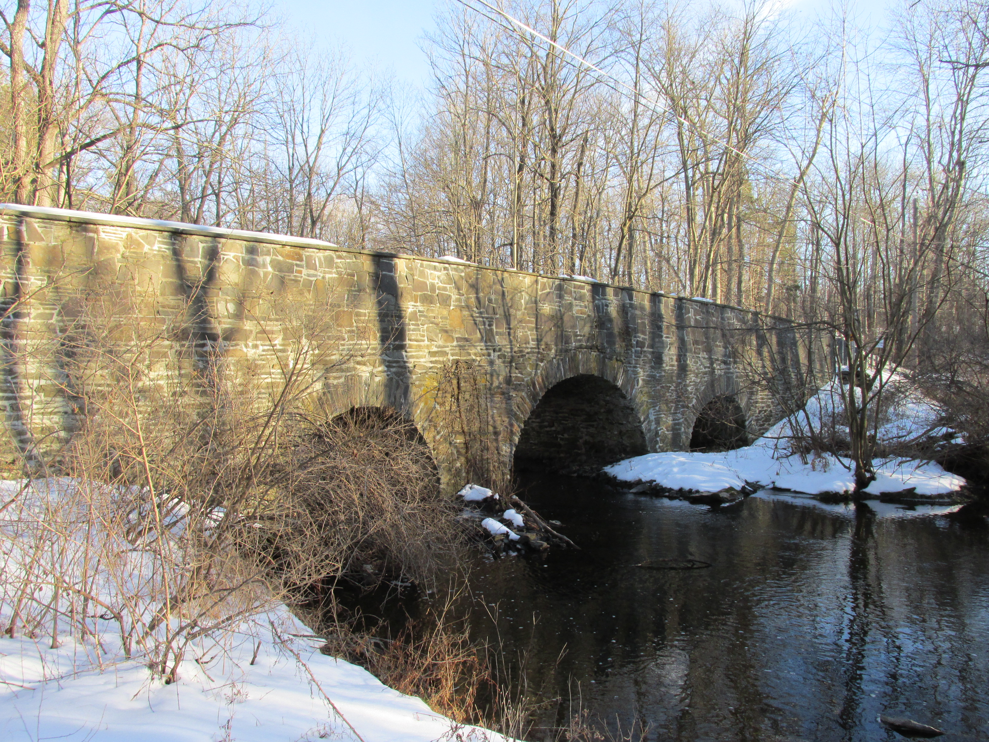 The Pilgrim's Progress Road Bridge — an 1850s stone arch bridge in Rhinebeck New York On the National Register of Historic Places in Rhinebeck